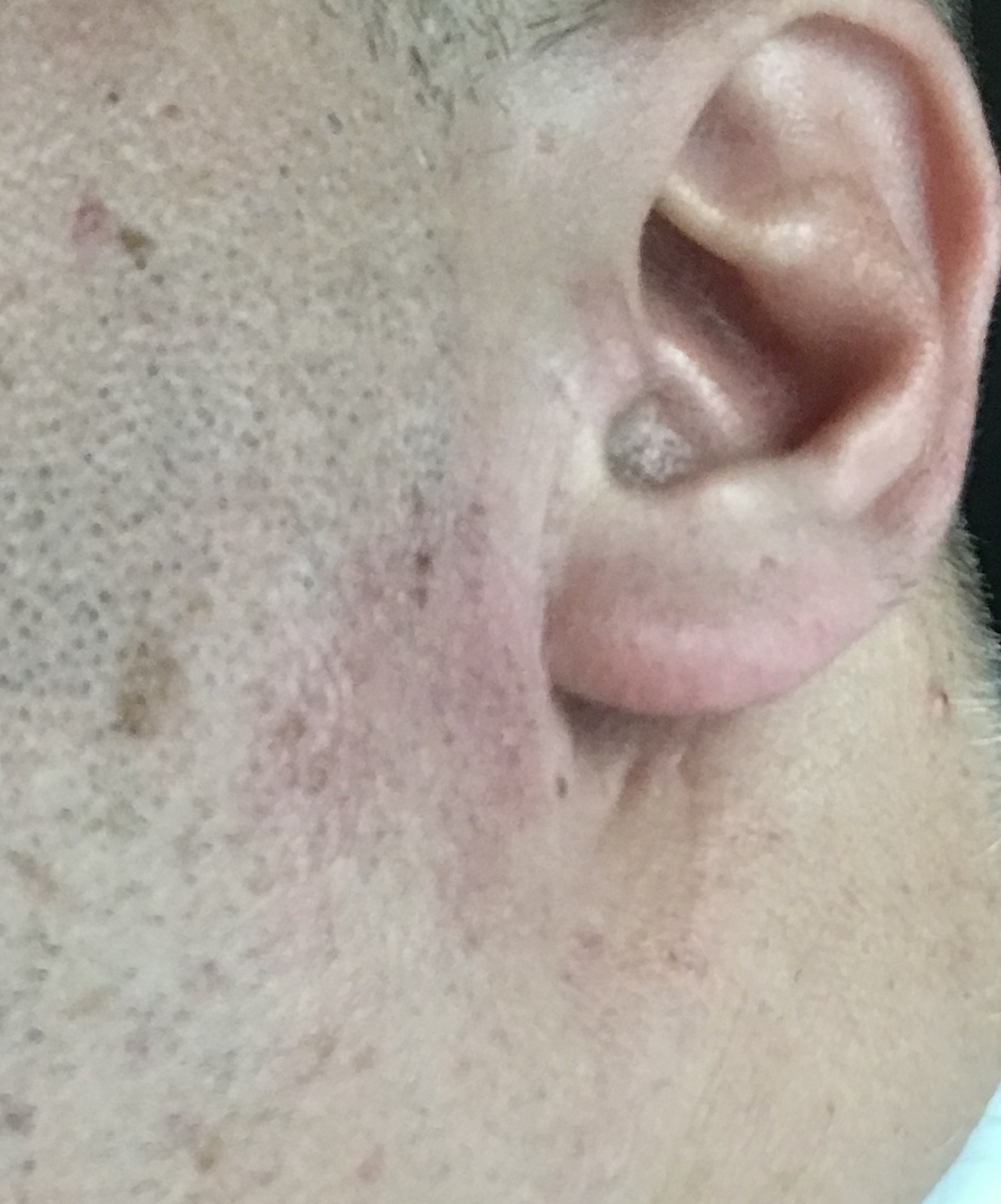 Depicts the redness that occurs when salivating with Frey's syndrome. This instance of the syndrome is the result of a parotidectomy and the scar can be seen, particularly in the pucker of the skin below the earlobe.